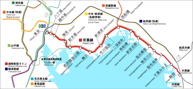 Map of JR Keiyo Line